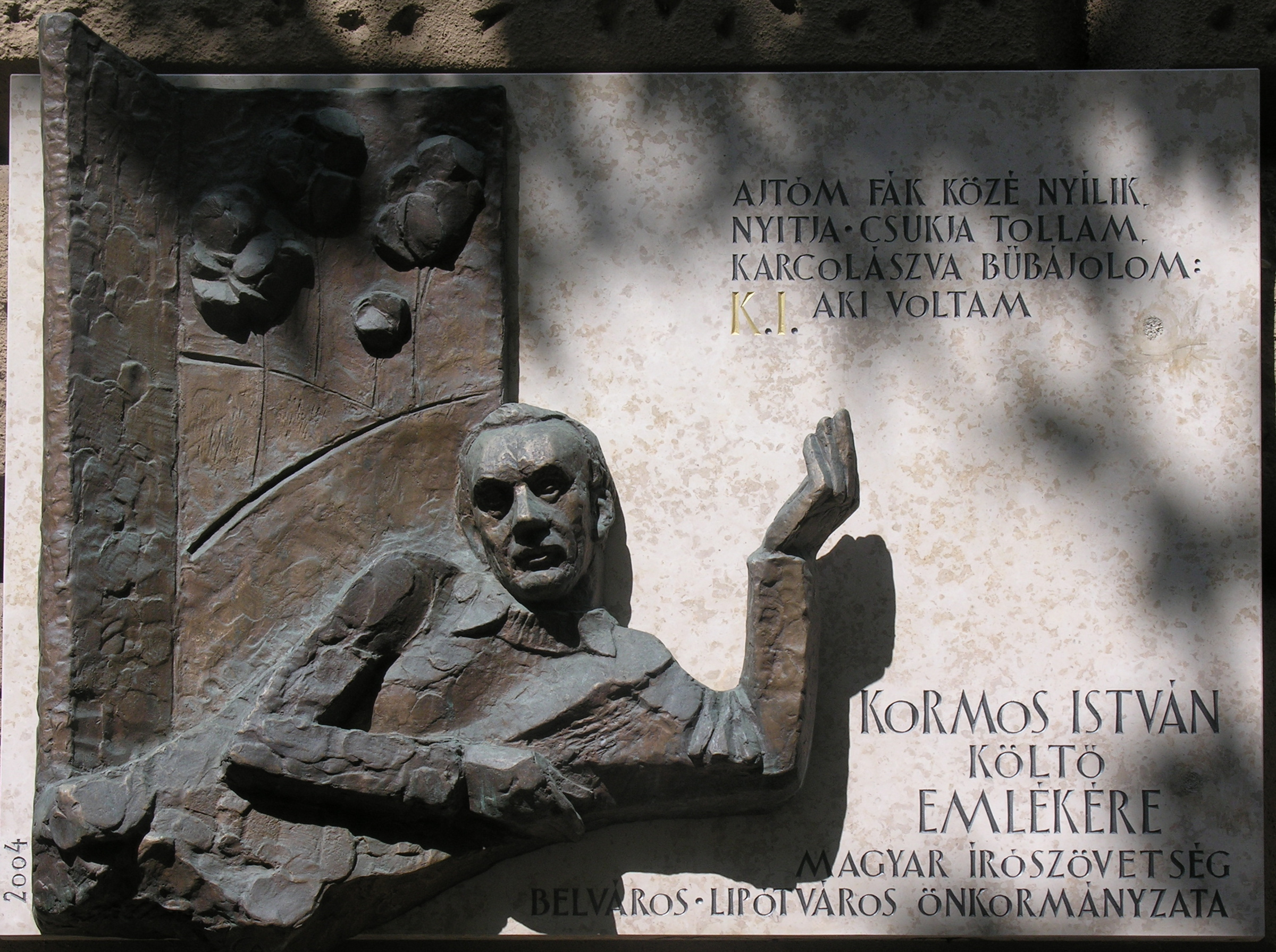 Commemorative plaque of István Kormos in Budapest District V, Báthori Street No 8